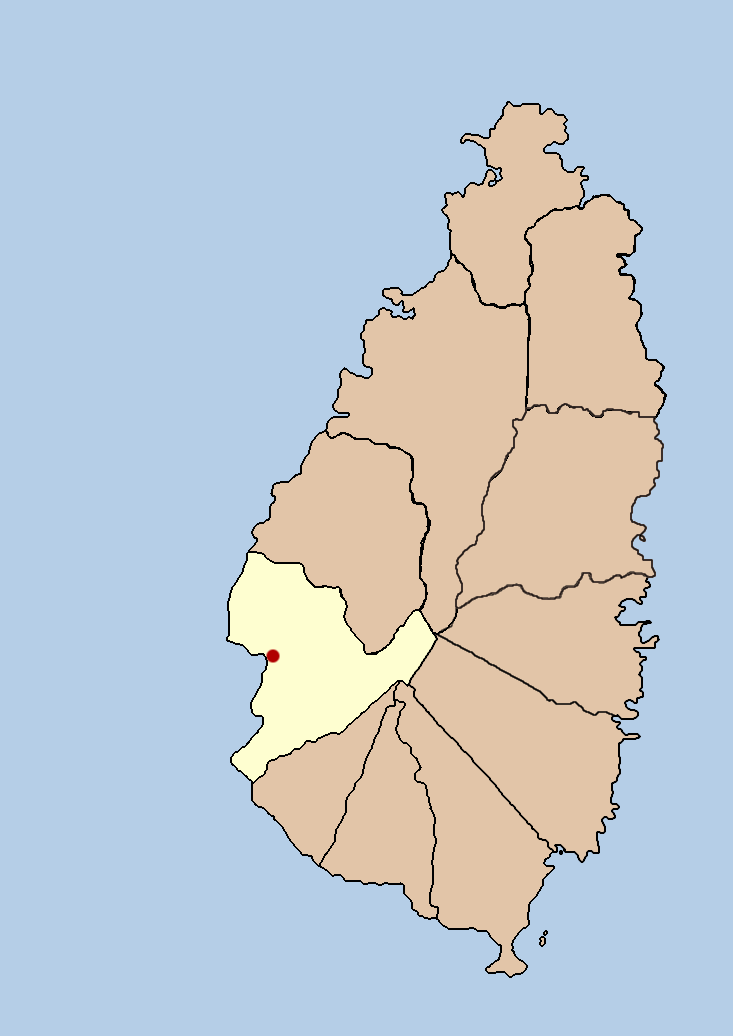 this is a political map showing the quarter of Soufriere on the island nation of Santa Lucia. I created it myself by using the GIMP to trace a public domain map that i found at the Perry-Castañeda Library Map Collection.